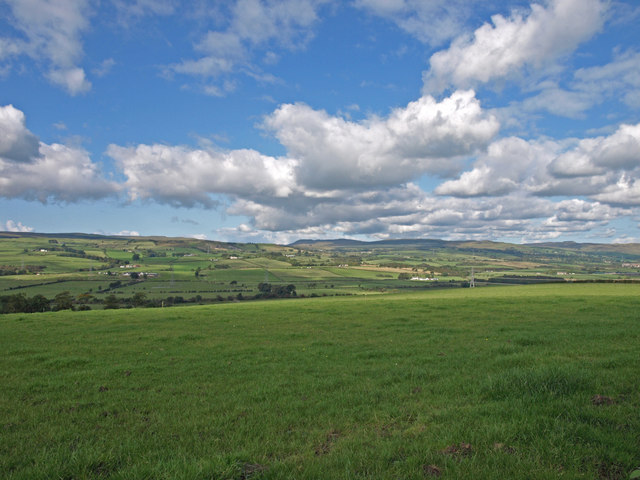 Garnock Valley Taken from near Highfield.